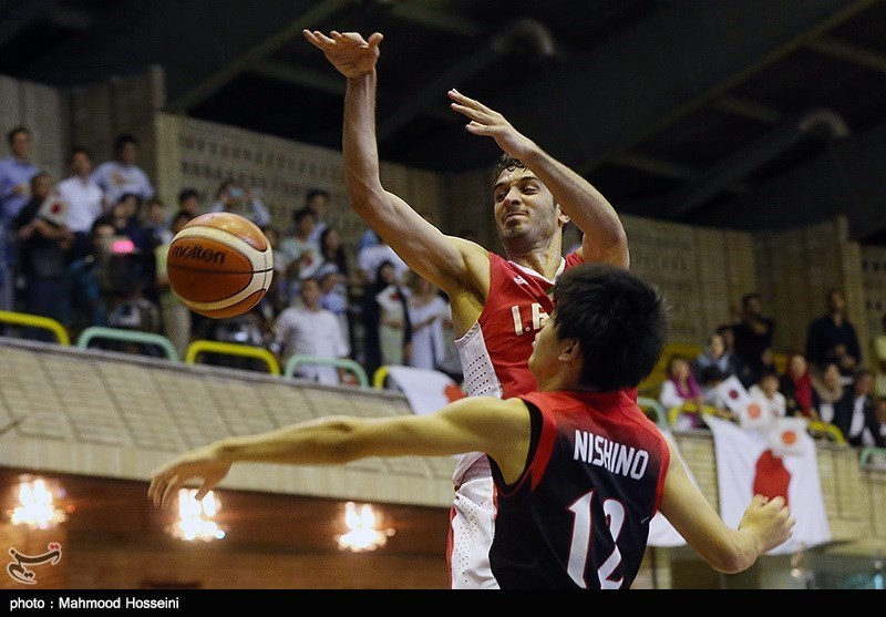 Yo Nishino